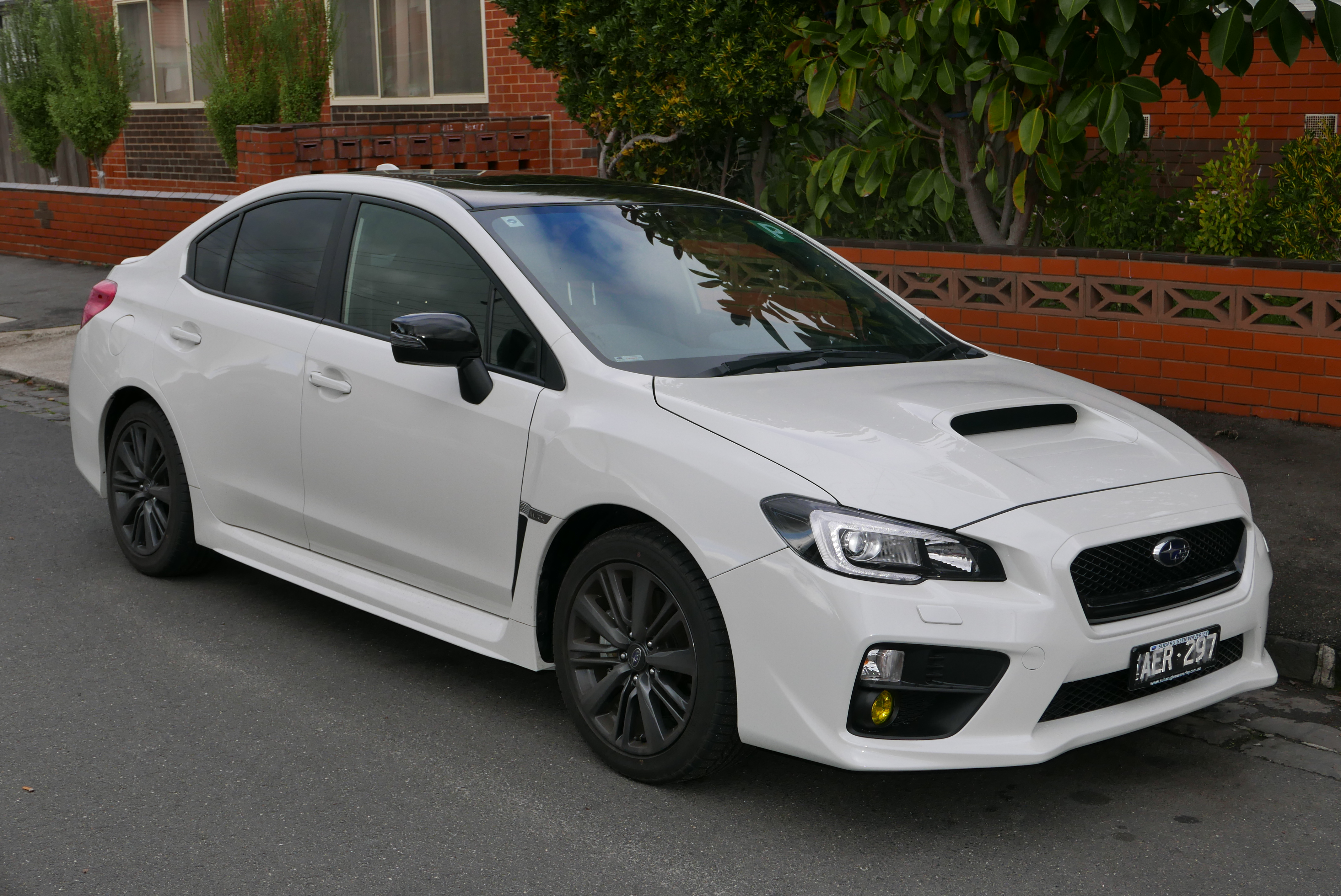 2015 Subaru WRX (VAG MY15) Premium sedan. Photographed in Brunswick, Victoria, Australia. Vehicle registration enquiry resultsJurisdictionVictoriaRegistrationAER297Chassis codeJF1VAGK85FG008289Engine codeK864366Compliance date2015-05Year of manufacture2015